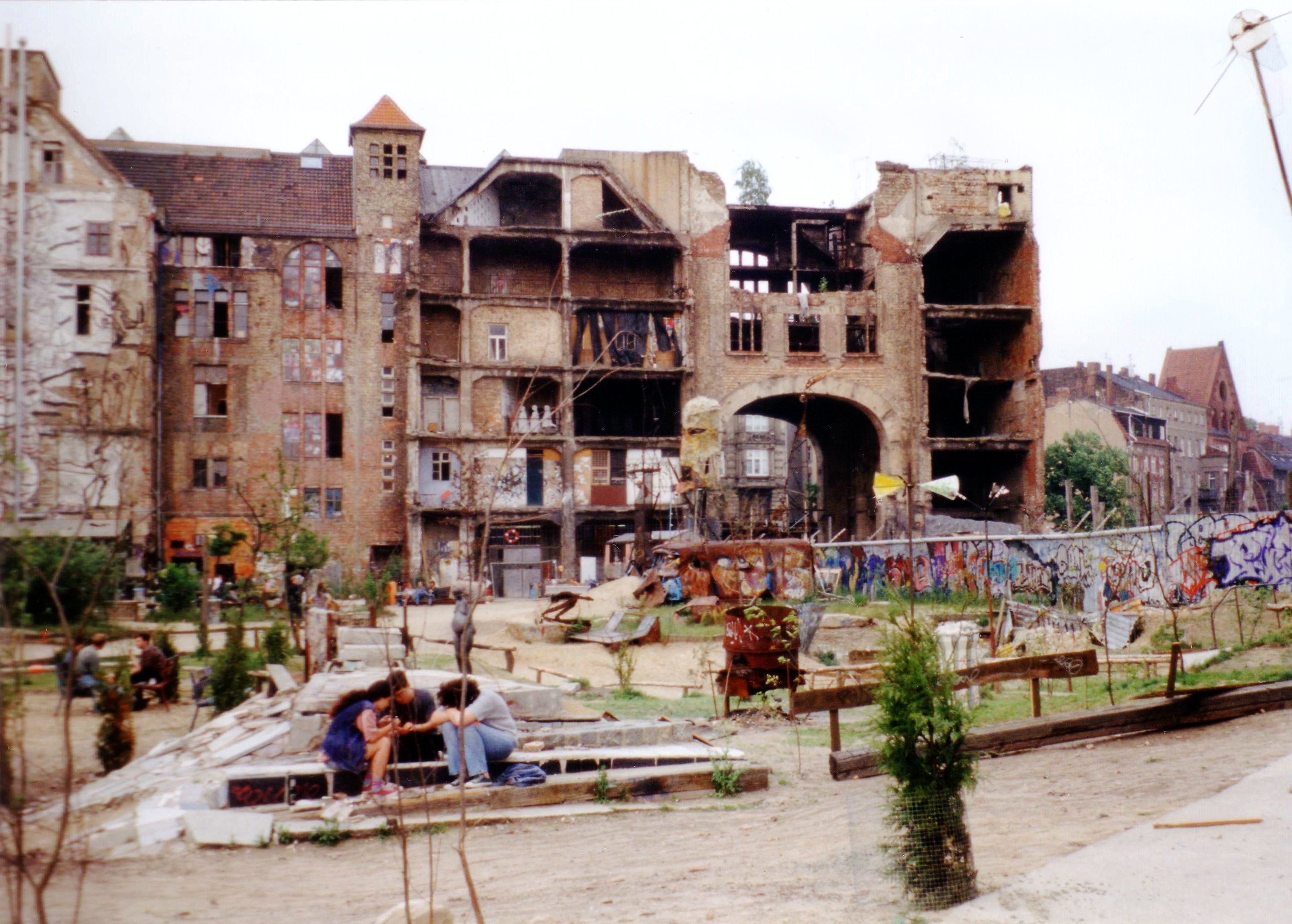 Tacheles backside in 1995